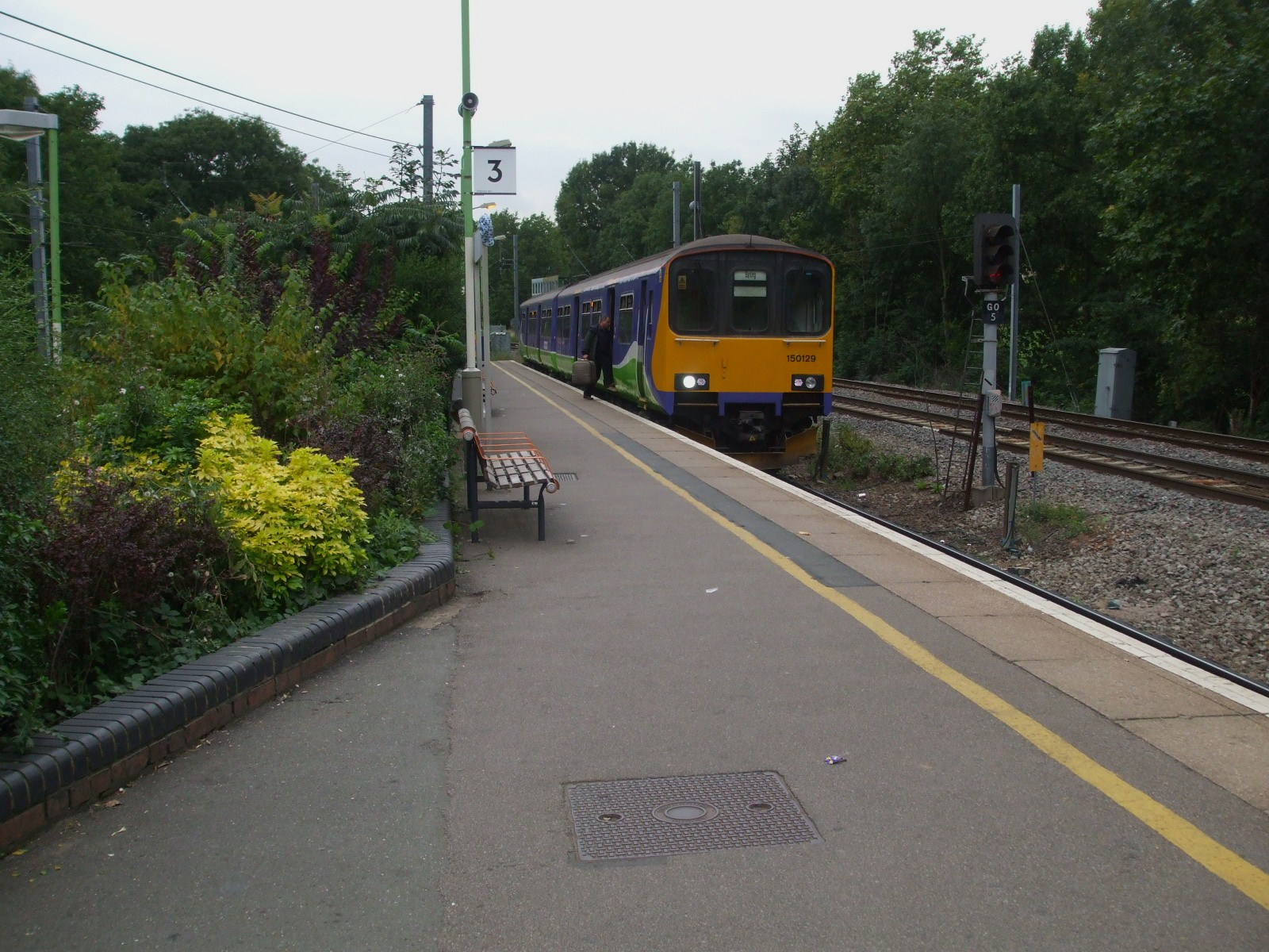 Class 150 unit 150129 awaits departure to Barking from Gospel Oak station